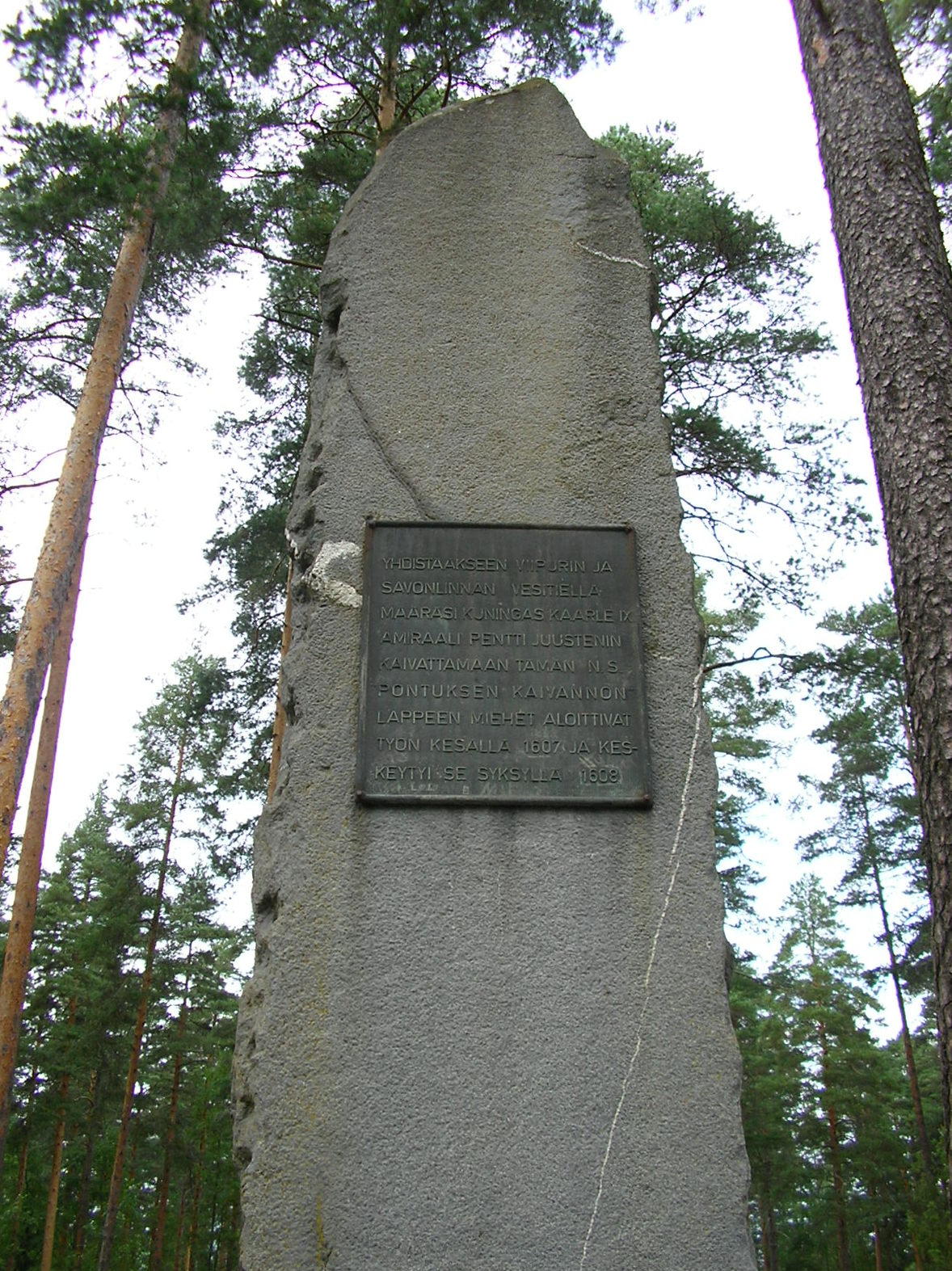 Memorial for Pontuksen kaivanto, a canal project under construction during 1607–1608. Mälkiä/Laihia, Lappeenranta.